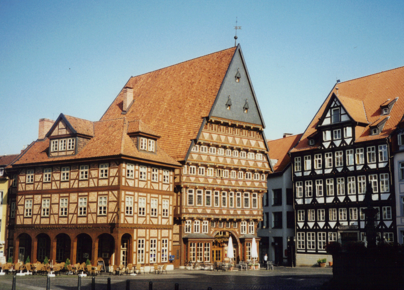 Butchers' Guildhall (1529) in Hildesheim.